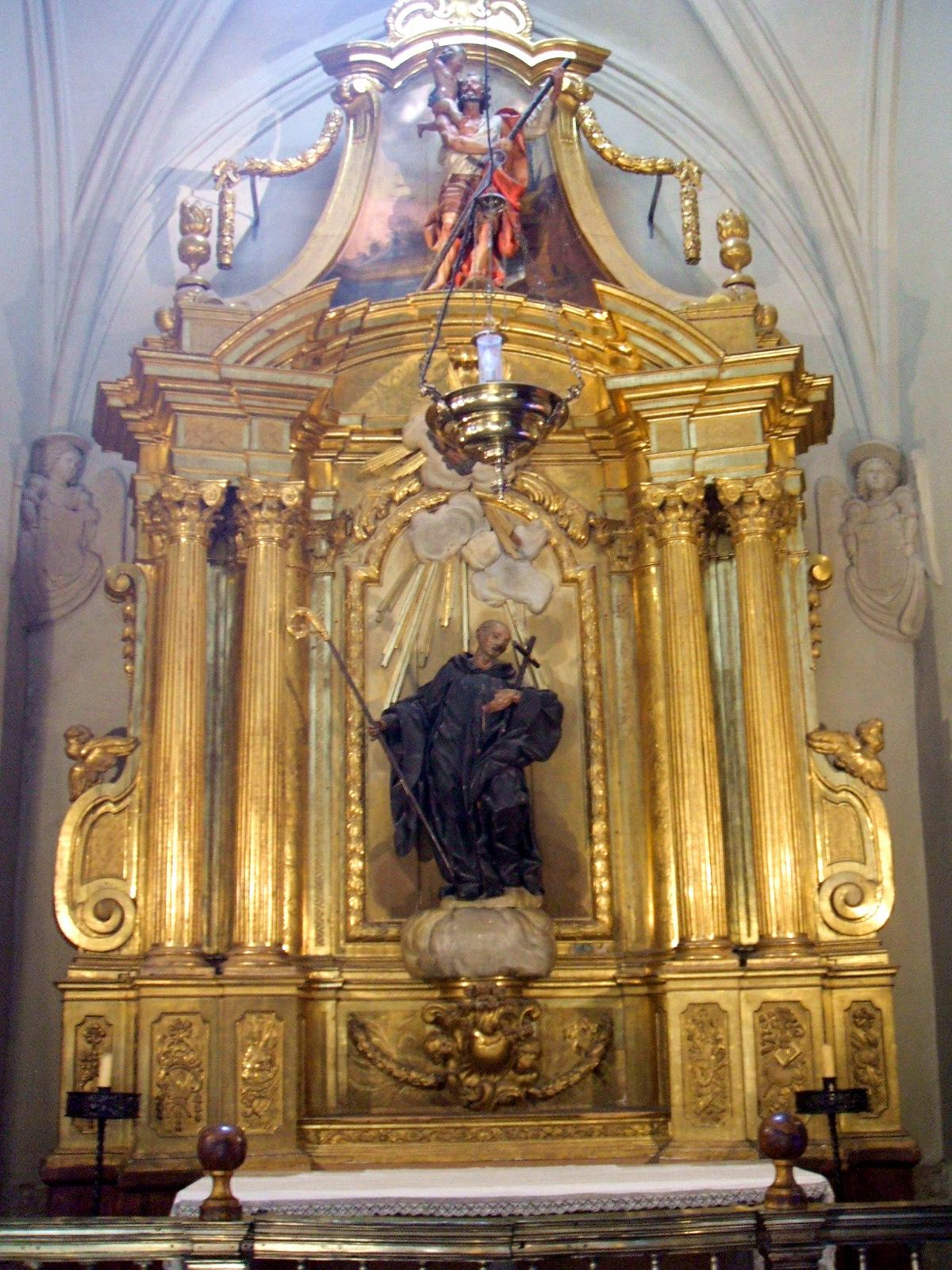 Retablo de transición barroco-neoclásico (s-XVIII) de la Capilla de San Benito de Nursia, en la Catedral del Salvador (La Seo) de Zaragoza (Aragón, España)